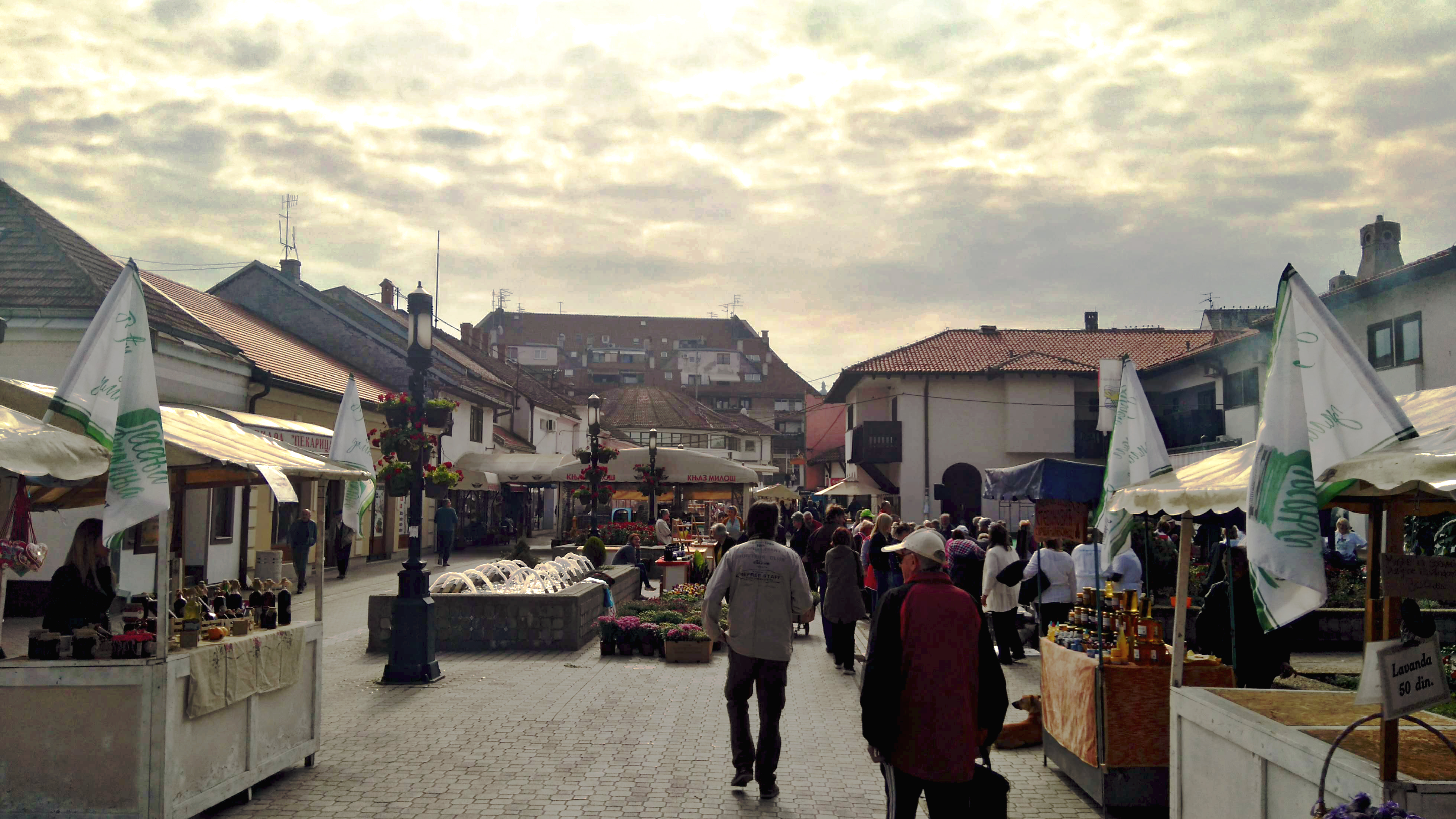 Gročanska čaršija